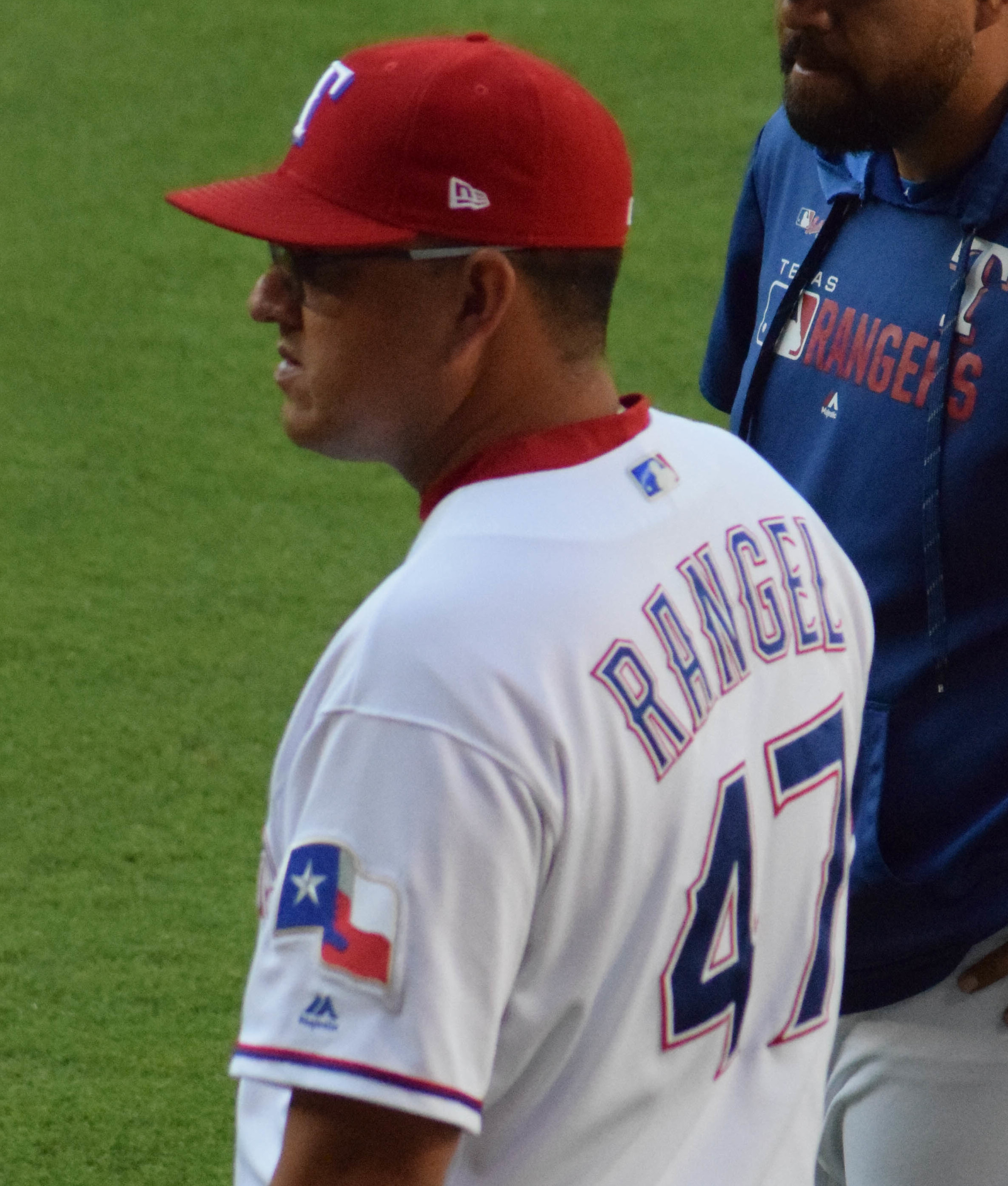 Coaches Julio Rangel and Oscar Marin with the Texas Rangers in 2019.